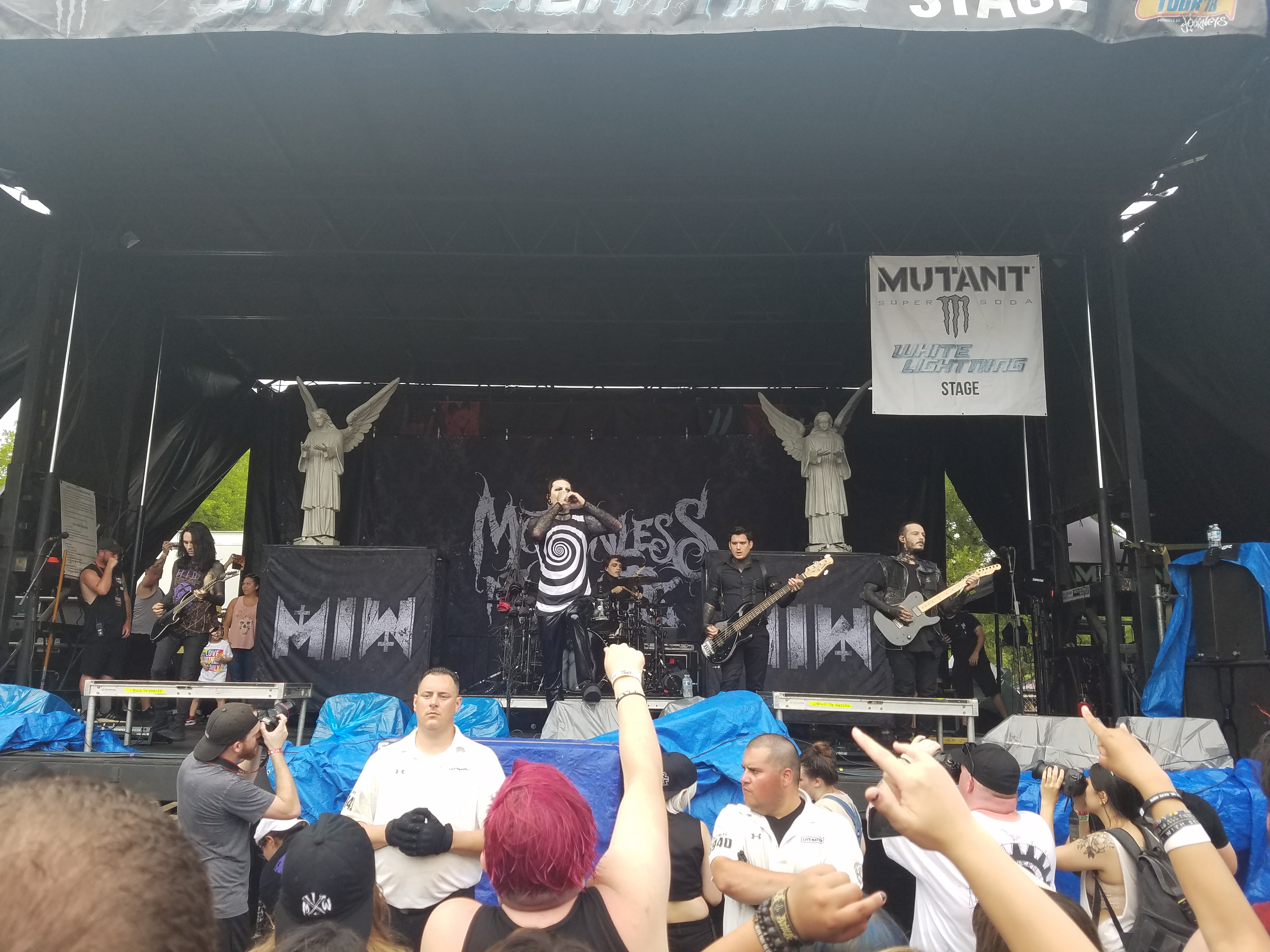 Motionless in White performing in 2018